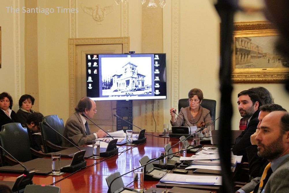 Manuel Monckeberg, Josefa Errázuriz, Nicolás Muñoz, Jaime Parada, Rodrigo García Márquez and David Silva in town council meeting. Photo by Charlotte Sexauer / The Santiago Times